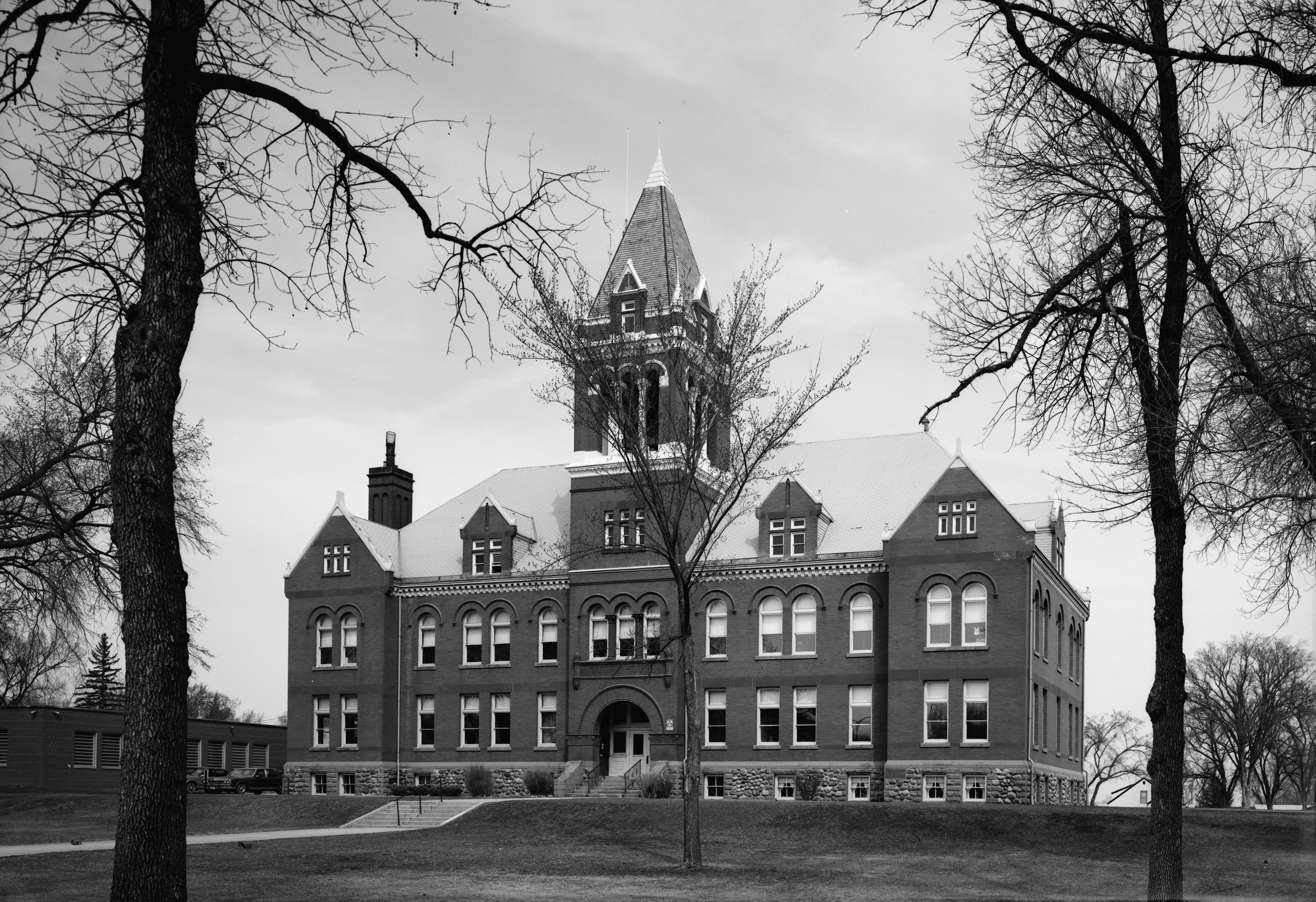 Lac qui Parle County Courthouse, Madison, Lac Qui Parle County, MN